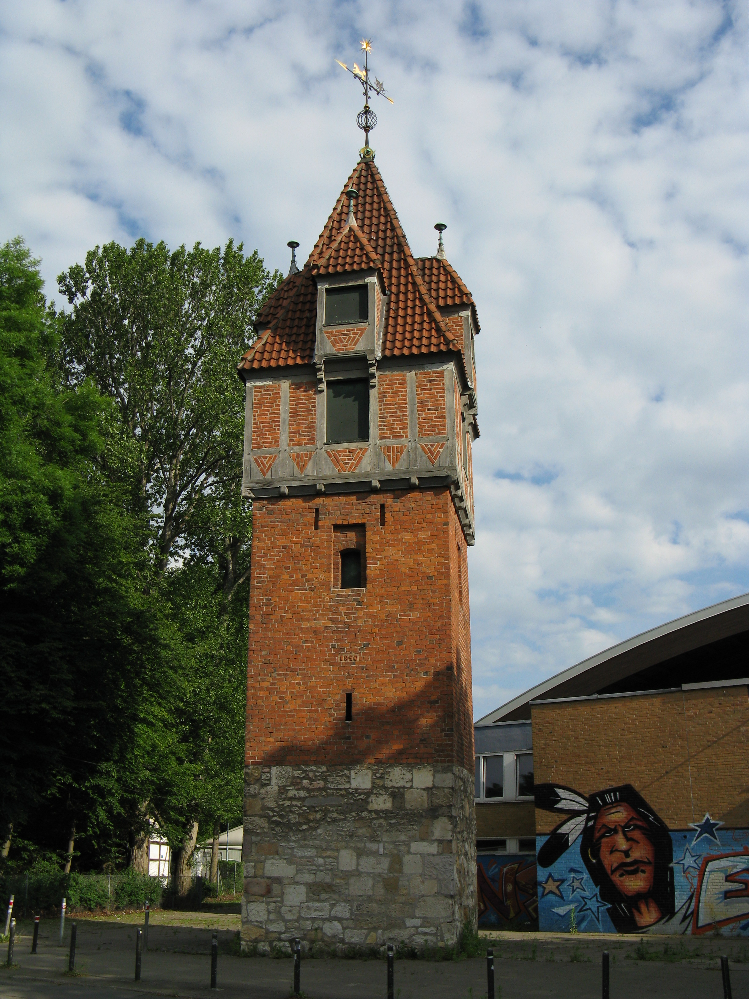 Hannover (Lower Saxony, Germany): Pferdeturm ("Horse Tower"), historical monument